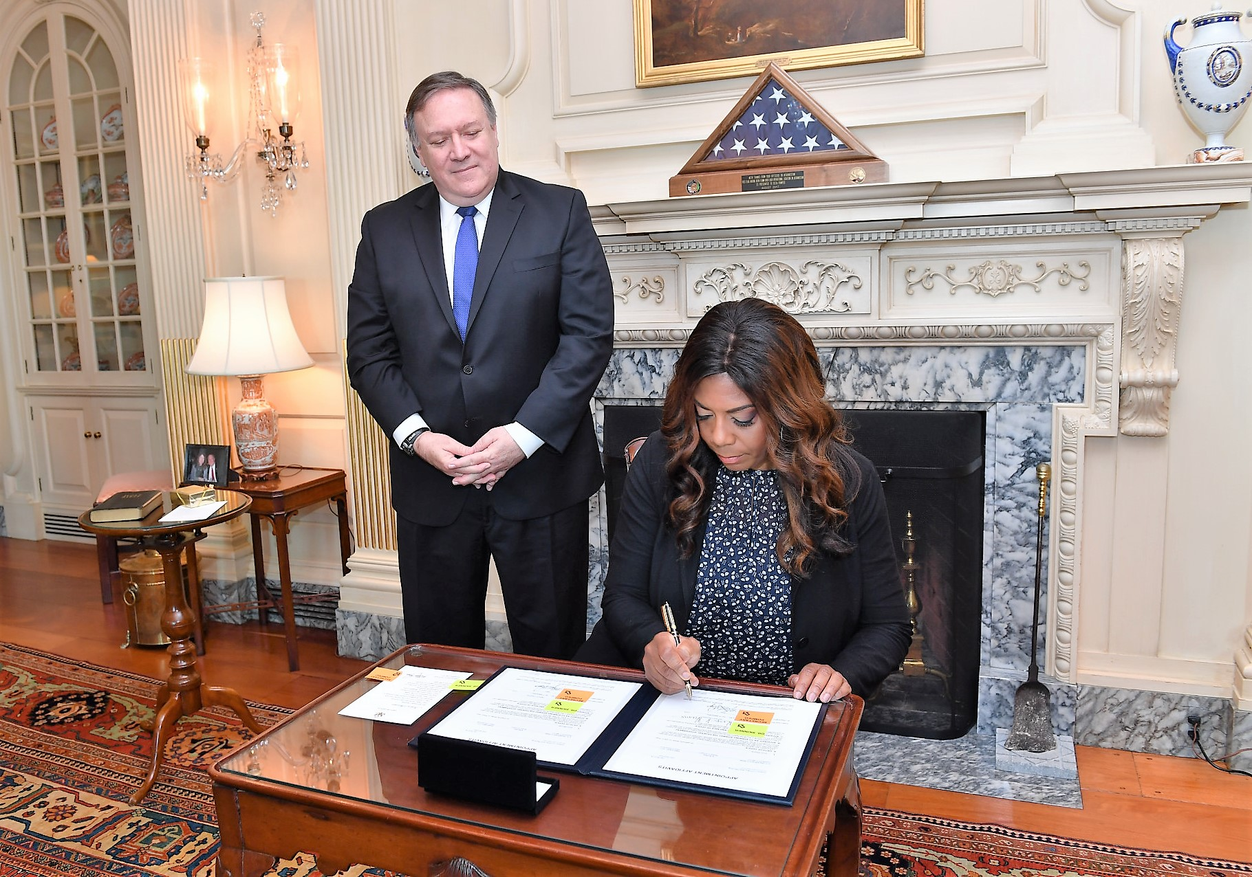 Secretary of State Michael R. Pompeo officiates the Swearing-In Ceremony for Dr. Kiron Skinner as Director of Policy Planning, at the Department of State, September 4, 2018. [ [State Department Photo / Public Domain]